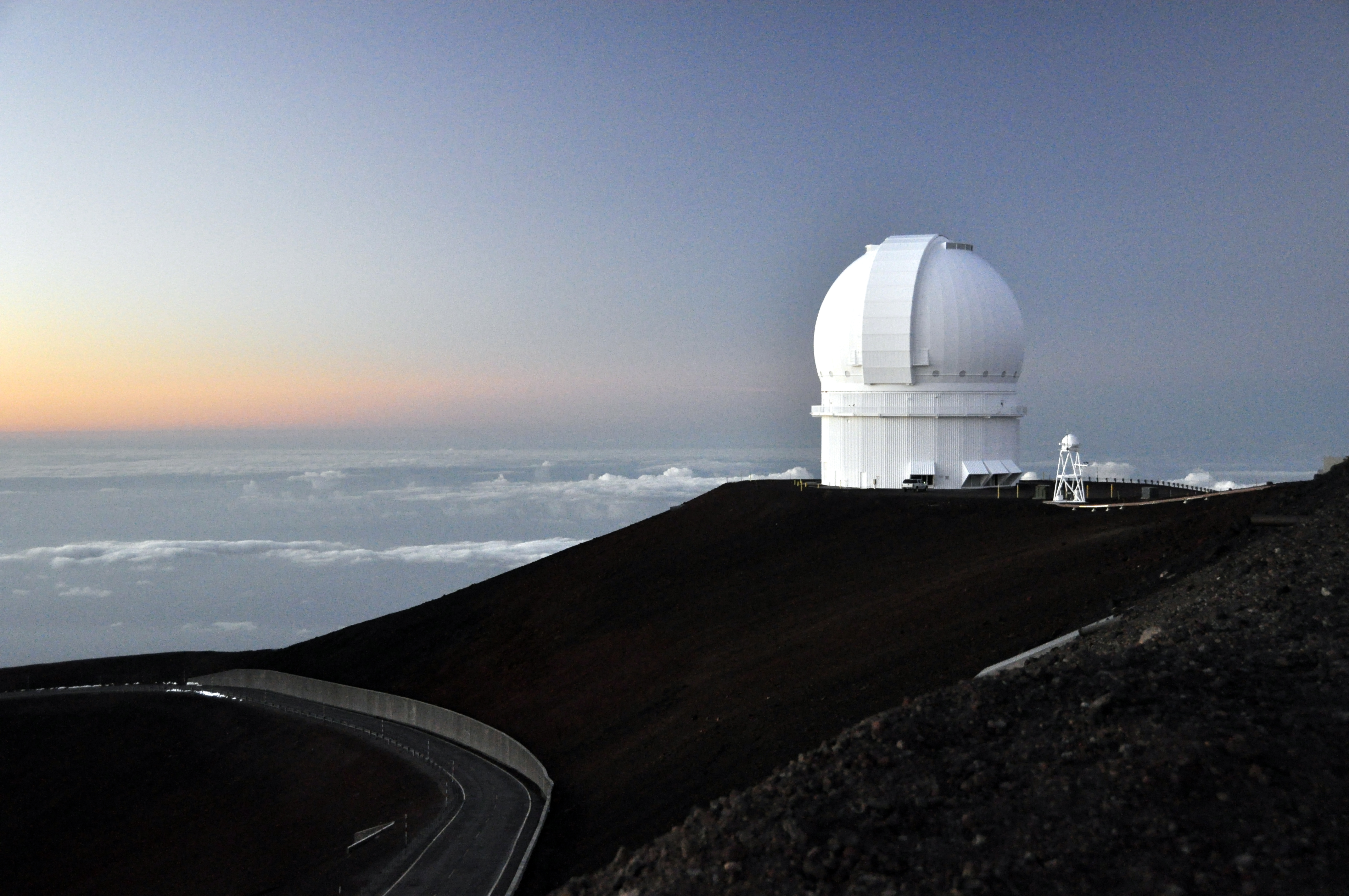 The Canada-France-Hawaii telescope atop Mauna Kea, Hawaii, USA, looking northwest toward Maui.